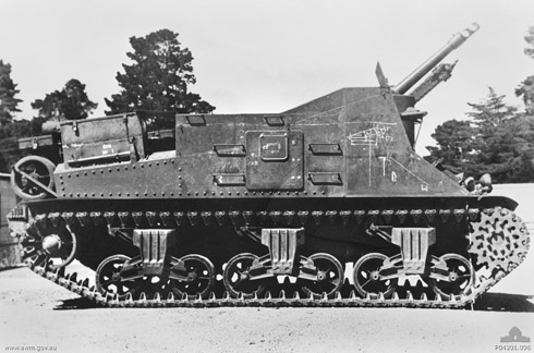 AWM Caption: Right side view, with gun fully depressed, of the prototype SP 25-pdr Yeramba; a self-propelled 25 Pounder gun mounted on a modified M3 General Grant tank chassis. (Official name: Ordnance, Quick Firing, 25 pdr Mark 2/1, on Mounting Self propelled 25 pdr (AUST) Mark 1, on Carrier, Grant, Self Propelled 25 pdr (AUST) Mark 1.) The white diagram on the side armour of the vehicle indicates the maximum elevation and depression of the gun. Australian designed and developed, the prototype Yeramba was made in 1949 at the Development and Proving Establishment, Monegeetta. After development trials were conducted at Greytown Range, a production run of 13 was undertaken by the Ordnance Factory, Bendigo, during 1951-52. The Yerambas were used by the 22 Field Regiment SP (self-propelled), a Victorian based Royal Australian Artillery Unit, until the Yeramba was declared obsolete and withdrawn from service in 1956.